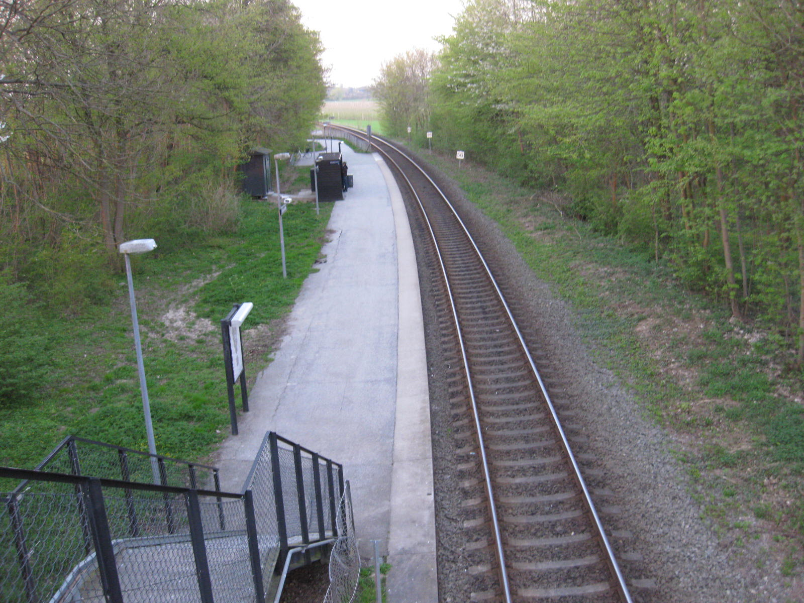 Hovmarken station